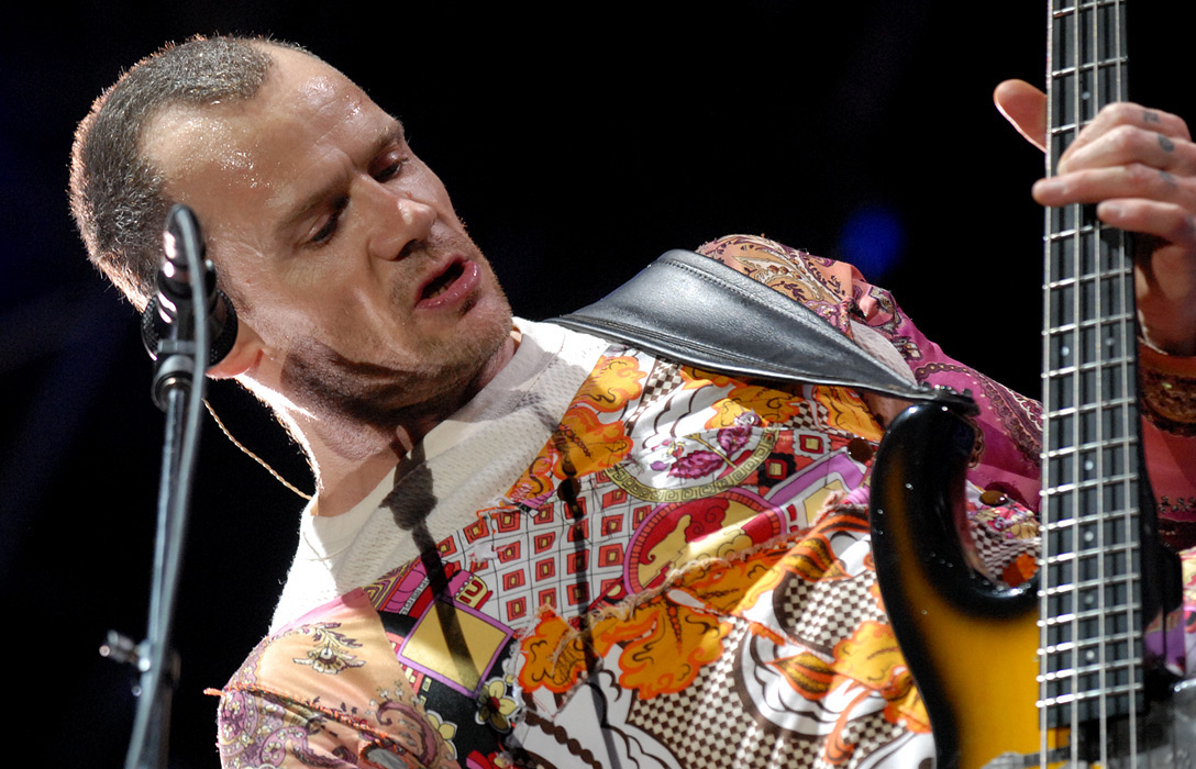 Flea of Red Hot Chili Peppers at the Oxygen Festival in 2006